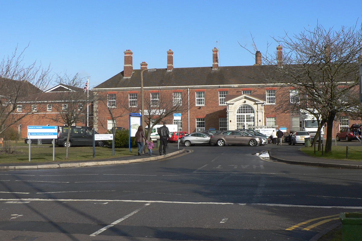 Llandough Hospital - Cardiff Main entrance to the building though like most hospitals annexes and satellite buildings have sprung up all around it to meet the increasing needs of a growing populace.